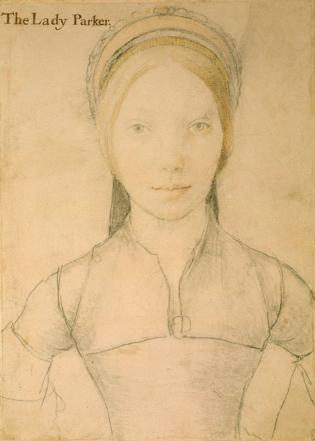 Grace, Lady Parker? Black and coloured chalks on pink-primed paper, 29.2 × 21 cm, Royal Collection, Windsor Castle. The identity of the sitter, inscribed merely as "The Lady Parker", has caused confusion among scholars and is not certain. Jane Parker, Lady Rochford, who played a part in the tragedies of Anne Boleyn and Catherine Howard, was ruled out by art historian K. T. Parker in his study of the Windsor drawings. He concluded that the sitter was the first or second wife of Sir Henry Parker, heir to Henry, Lord Morley, whom he predeceased in 1553. (Parker was certain she was not Lord Morley's wife, Alice.) Sir Henry Parker's first wife was Grace Parker and his second Elizabeth Parker, He married the latter in 1549, after Holbein had died, but the inscription also postdates Holbein and Holbein may just possibly have drawn her before she was married. Grace Parker is the more likely subject, if the inscription is reliable. Reference K. T. Parker, The Drawings of Hans Holbein at Windsor, London: Phaidon, 1945, p. 56.